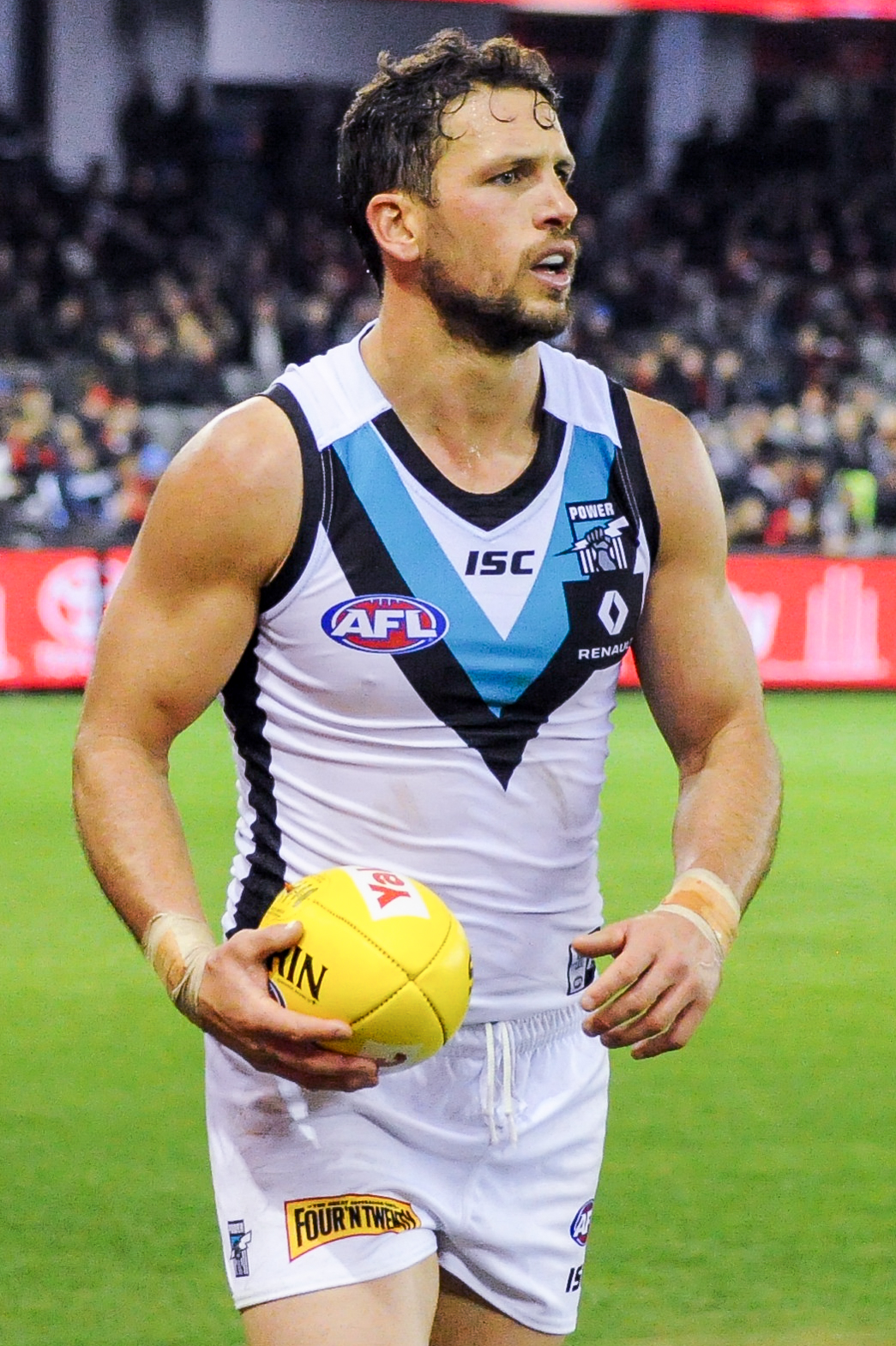 Travis Boak during the AFL round twelve match between Essendon and Port Adelaide on 10 June 2017 at Etihad Stadium in Melbourne, Victoria.